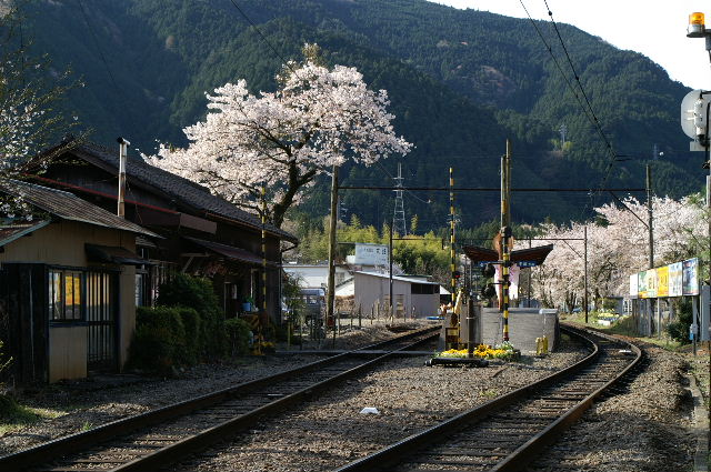 surugatokuyama-sta